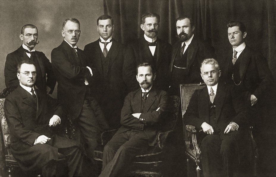 A delegation of the Council of Lithuania in Berlin after discussing the first appointment of the Cabinet of Ministers with the new German government of Prince Maximilian of Baden. From left sitting: Jonas Staugaitis; Antanas Smetona; Konstantinas Olšauskas; standing: Jokūbas Šernas; Jurgis Šaulys; Juozas Purickis; Vilius Gaigalas; Martynas Yčas; Augustinas Voldemaras.